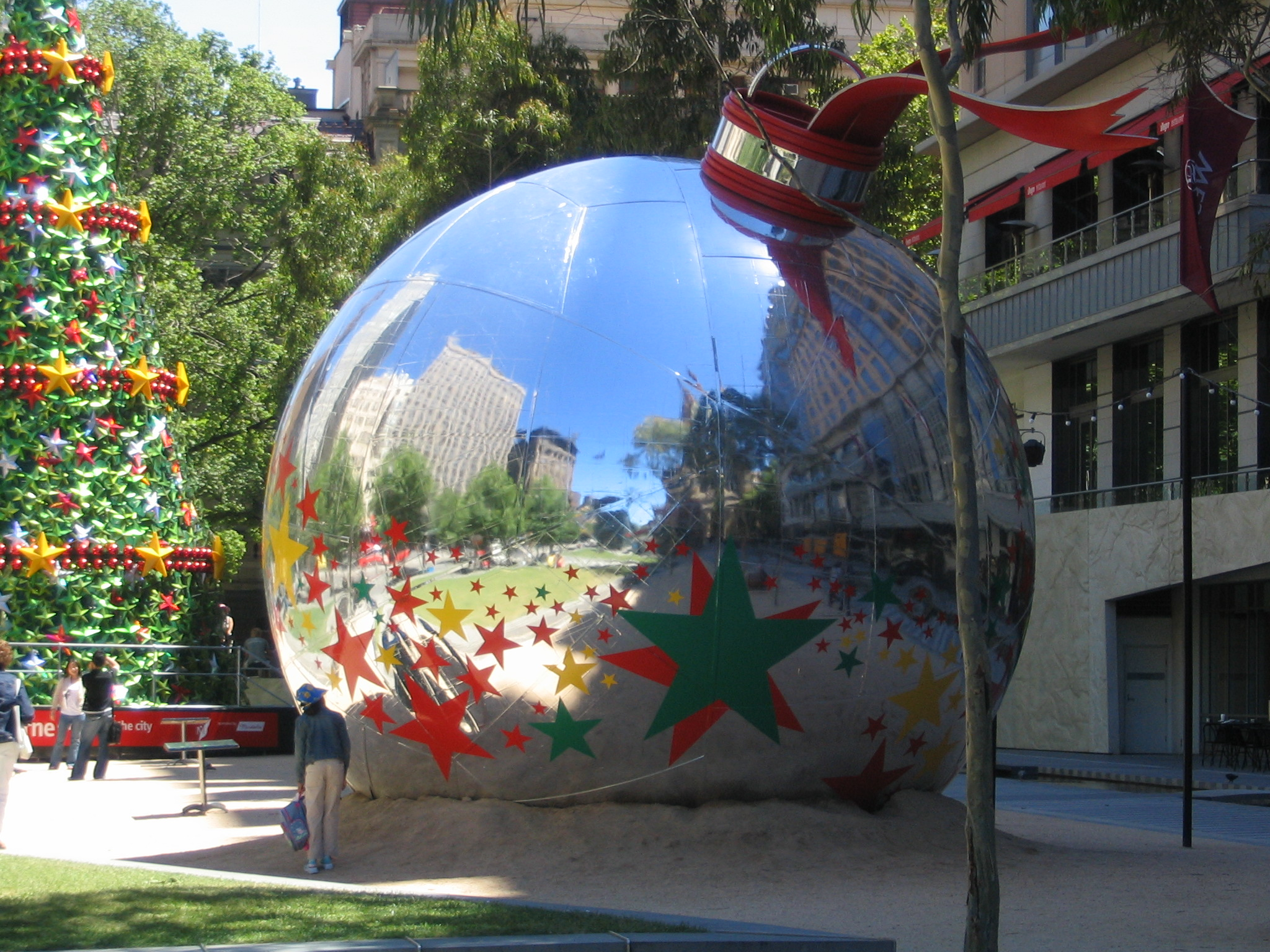 Christmas ball sculpture in Melbourne, Australia